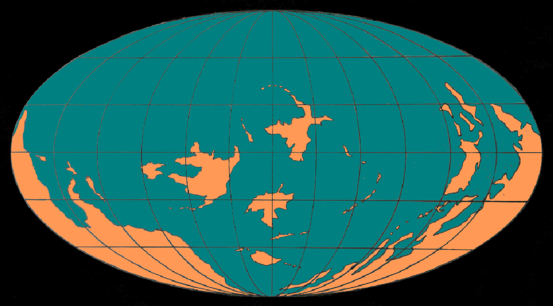 Probable map of the world in the middle of the Ordovician period; 470 million years ago.